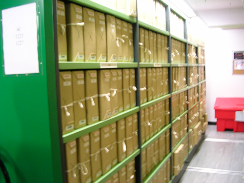 I took this photograph myself when I went on a tour of the National Archives.